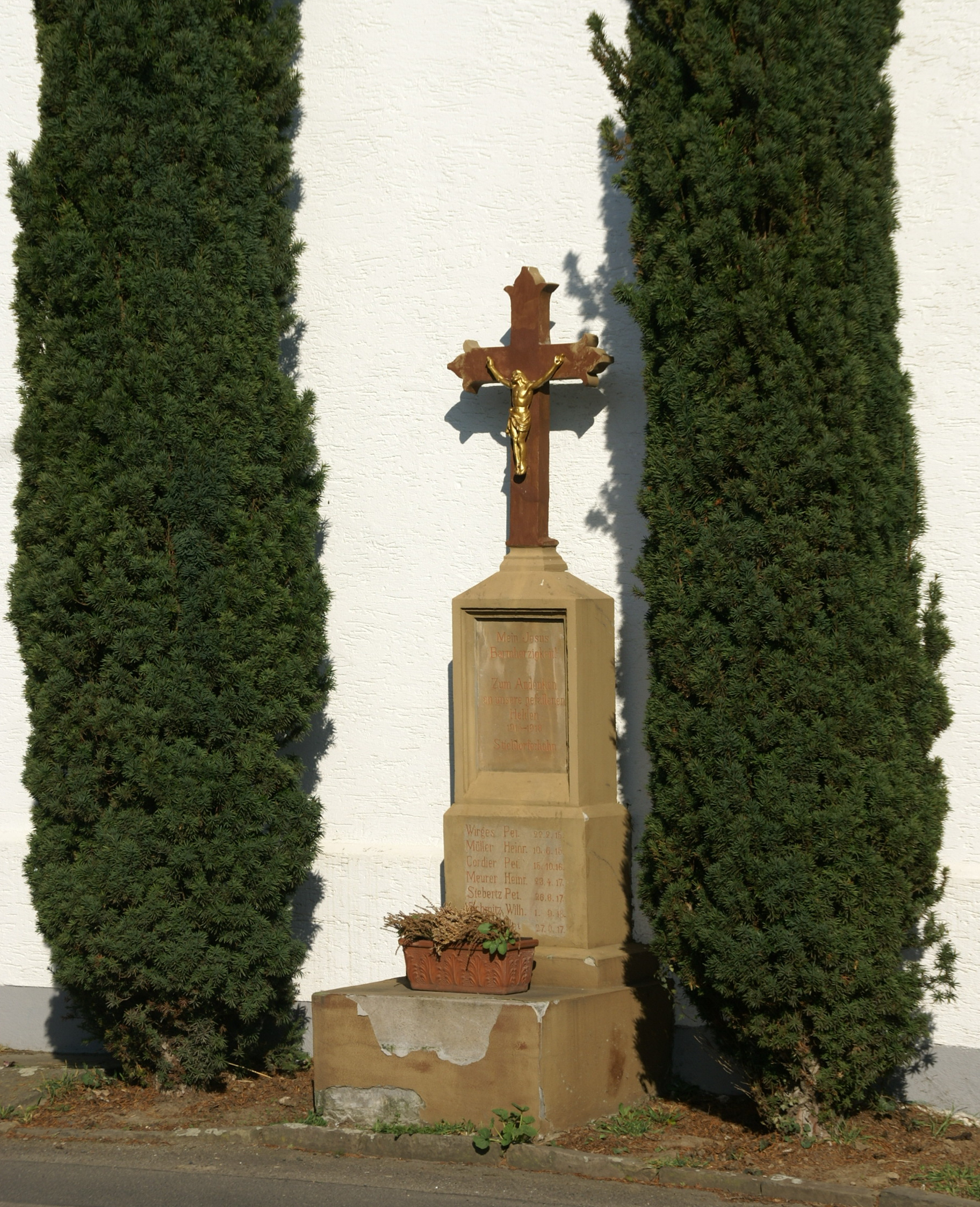 War memorial in Stieldorferhohn in memory of the soldiers from the village who were killed in World War 1914-18